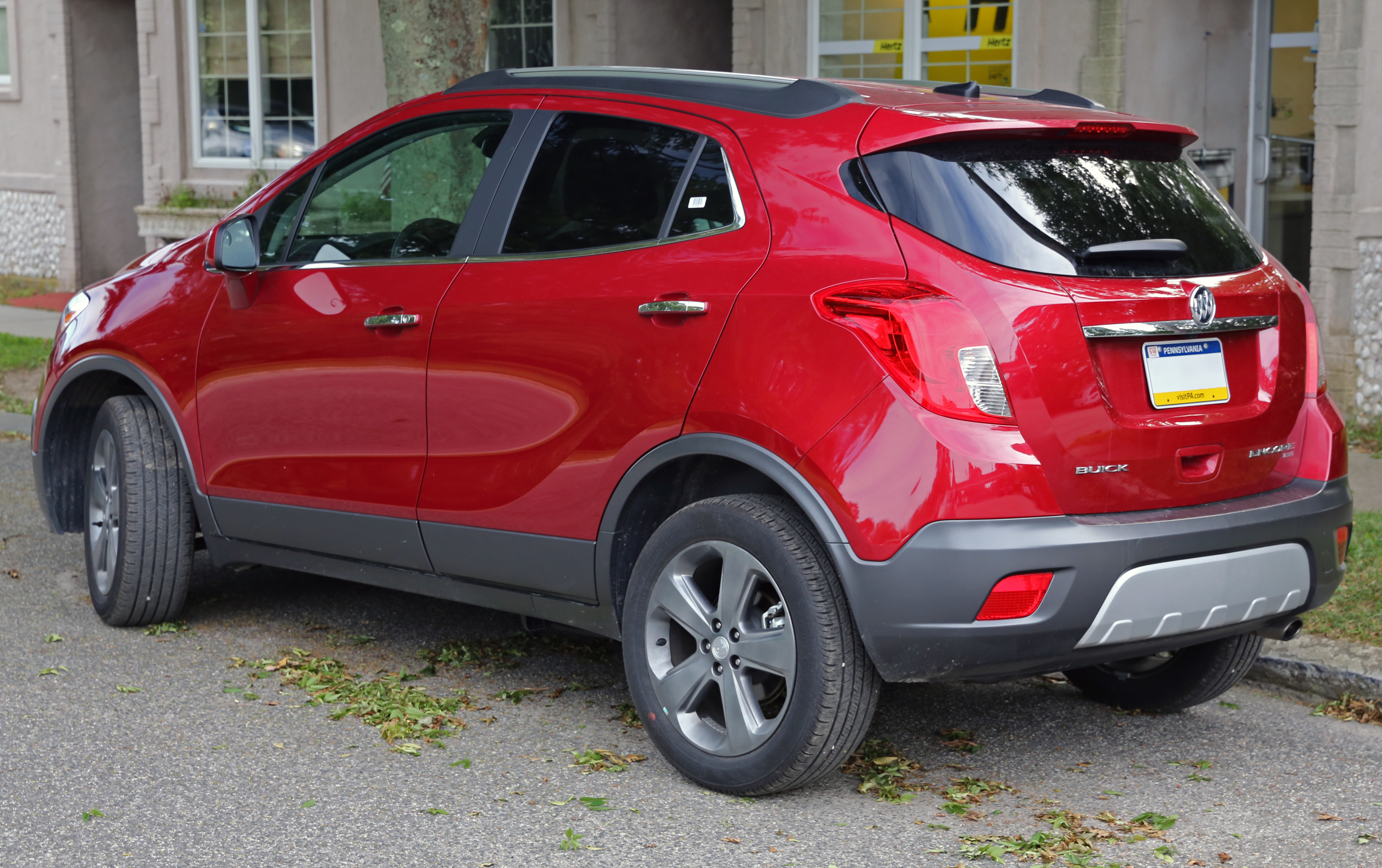 2013 Buick Encore in Southampton, NY. 1.4 litre turbo inline-four, built in Bupyeong, South Korea. 6-speed automatic and AWD, plus the leather package.